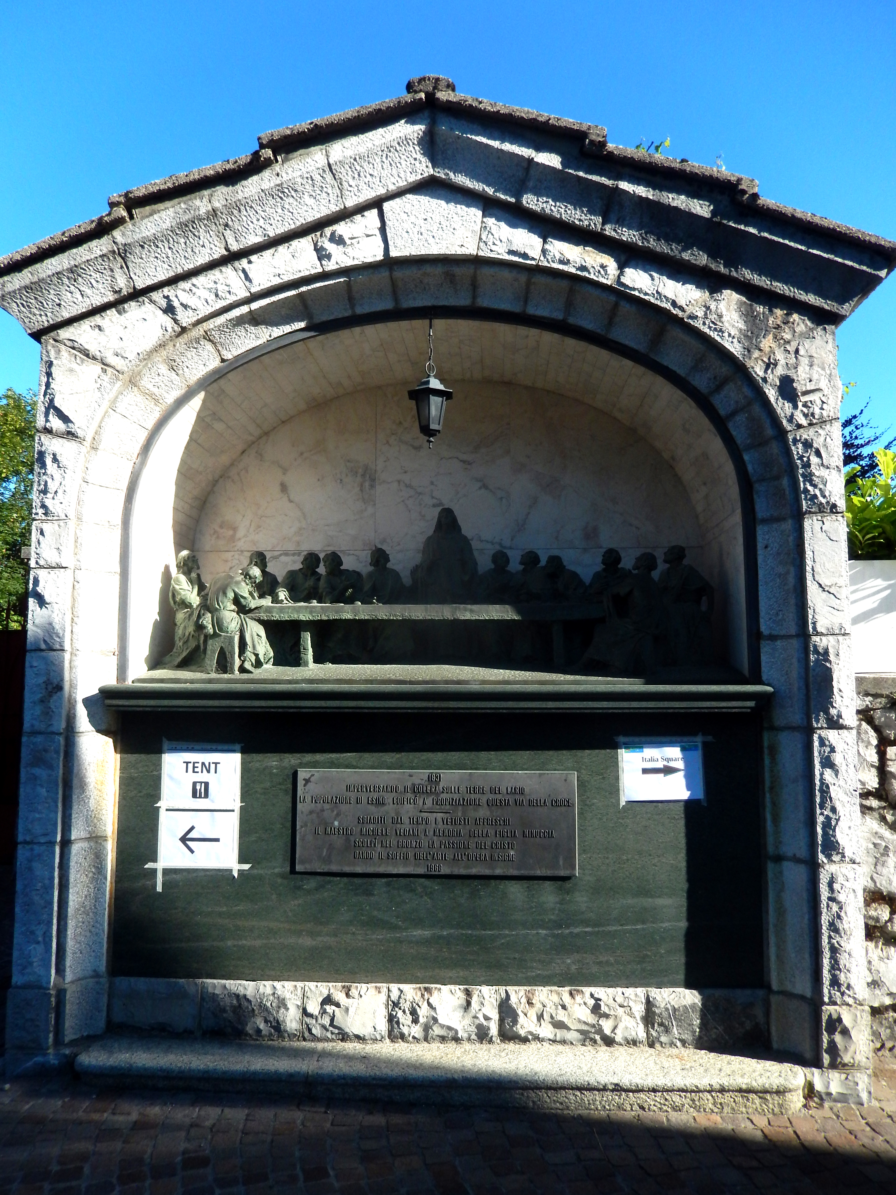 Esino Lario